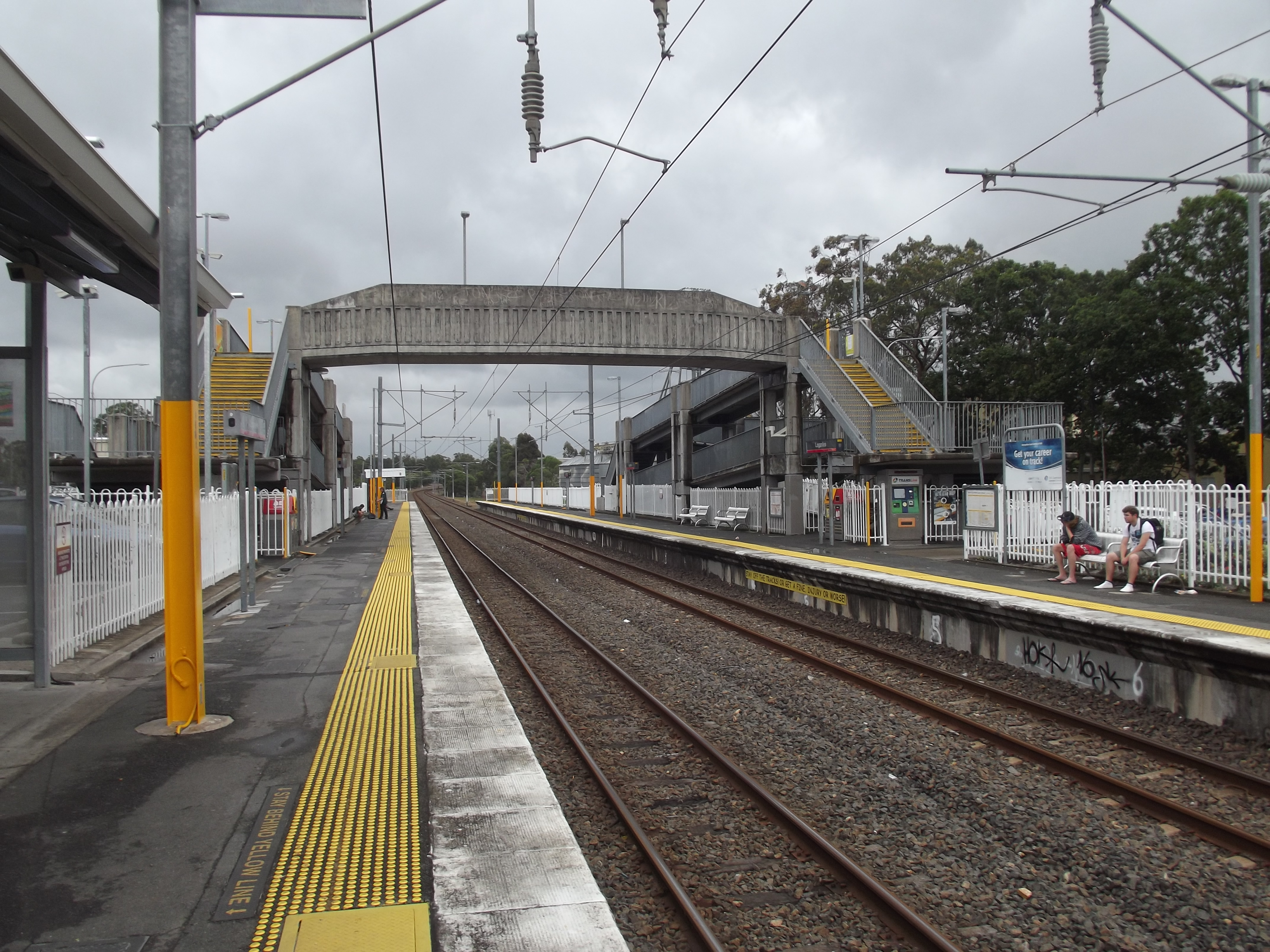 A photo of the Loganlea railway station, operated by TransLink, located in Logan City, Queensland.